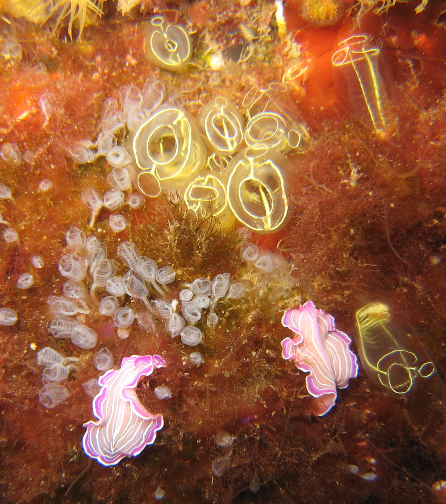 Pink flatworm (Prostheceraeus giesbrechtii (roseus)) couple near transparent seasquirts (Clavelina lepadiformis) on the upright corner and midget seasquirts (Pycnoclavella nana) on the center left. Picture taken in Niolon near Marseilles